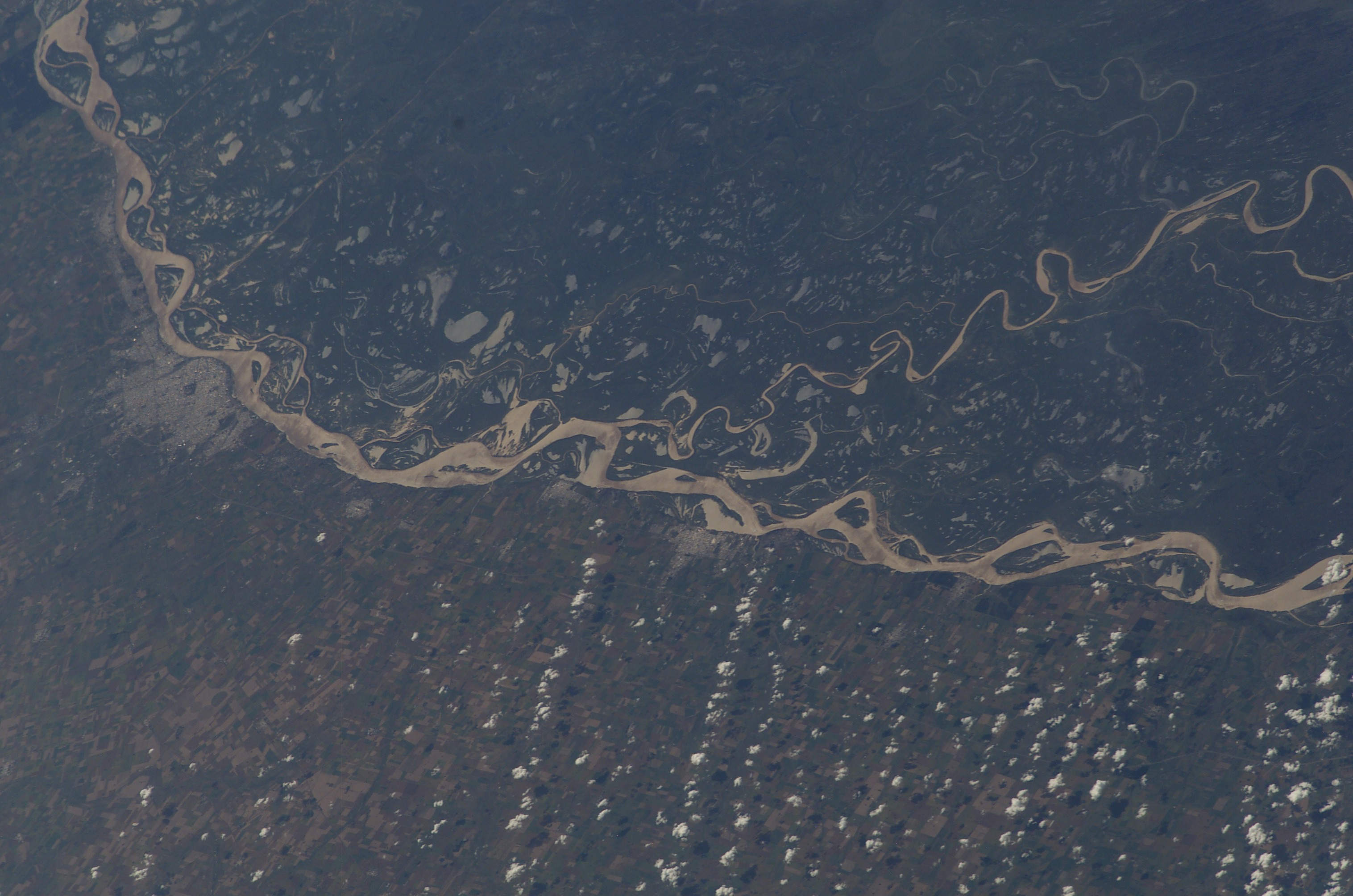 Part of the delta and flood plain of the Paraná River in Argentina, centered at 33°S 60°W.